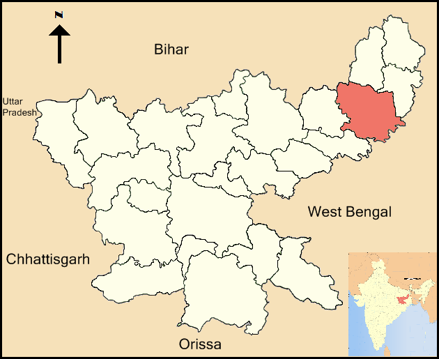 A locator map of Dumka district of Jharkhand state